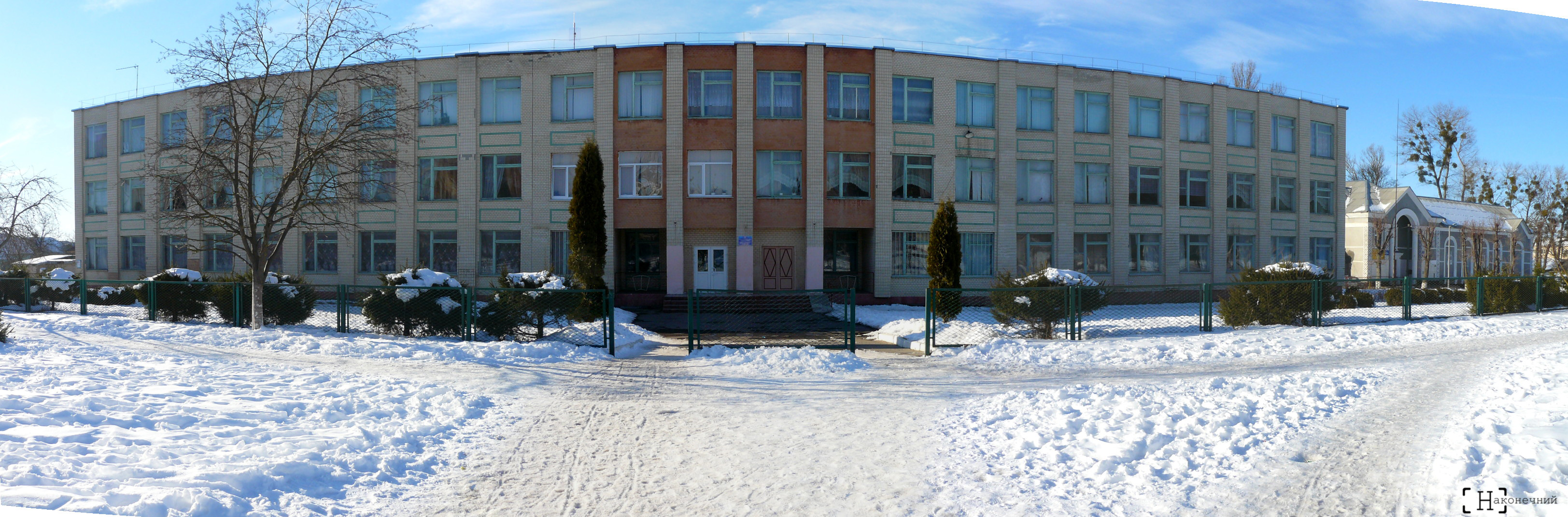 Панорамне фото школи